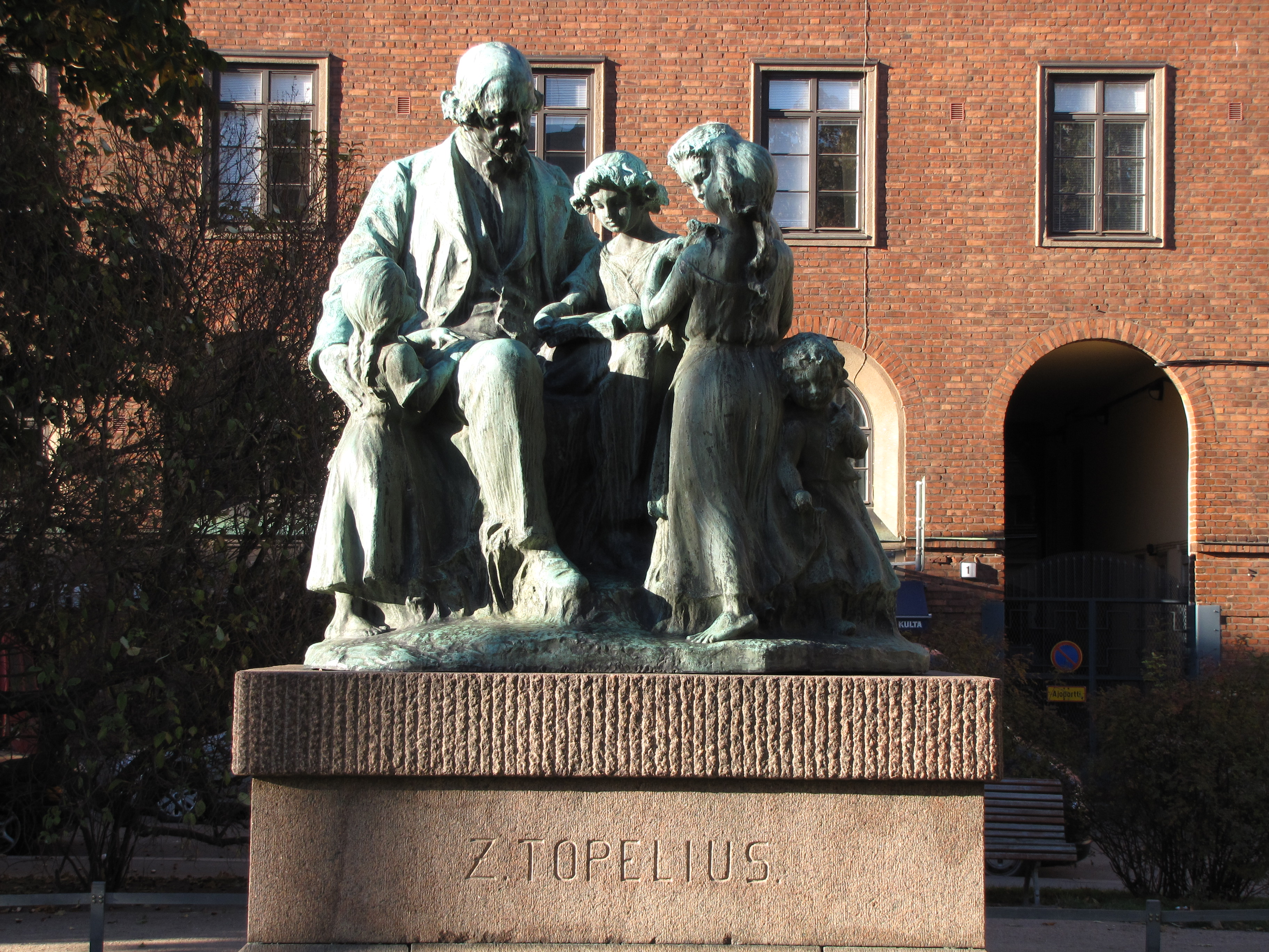 Topelius and children statue sculpted by Ville Vallgren (1855-1940) as a memorial for Zacharias Topelius. Statue was sculpted in 1909 but casted bronze and erected in 1932.